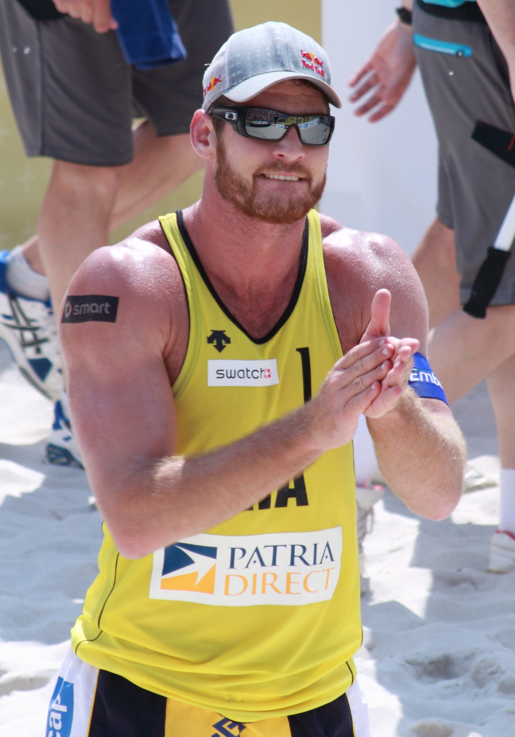 Alison Cerutti on Patria Direct Open 2011